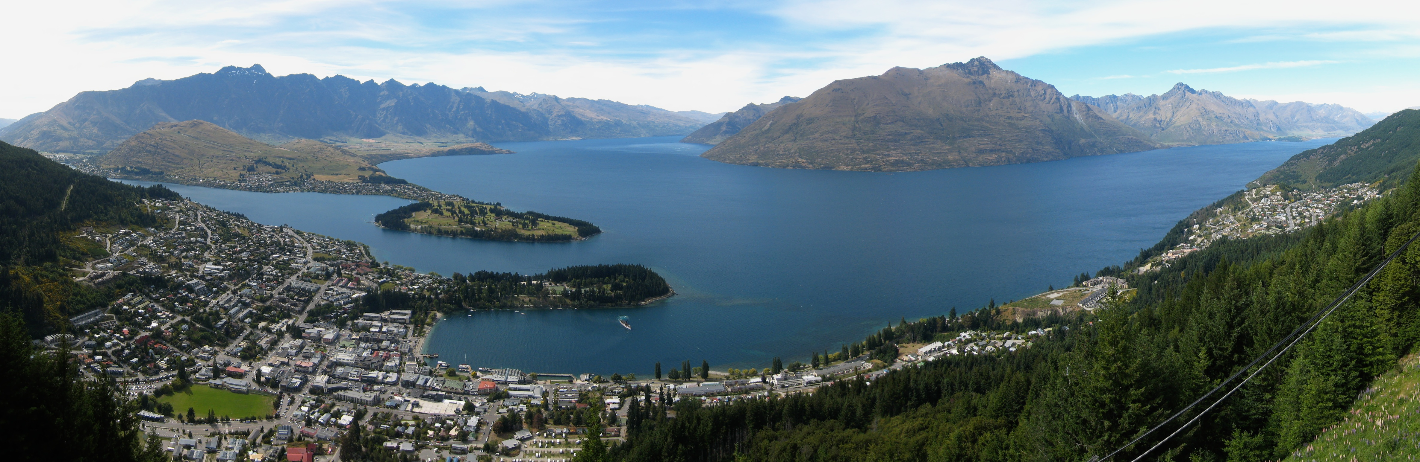 Lake Wakatipu seen from the top of the Queenstown gondola.